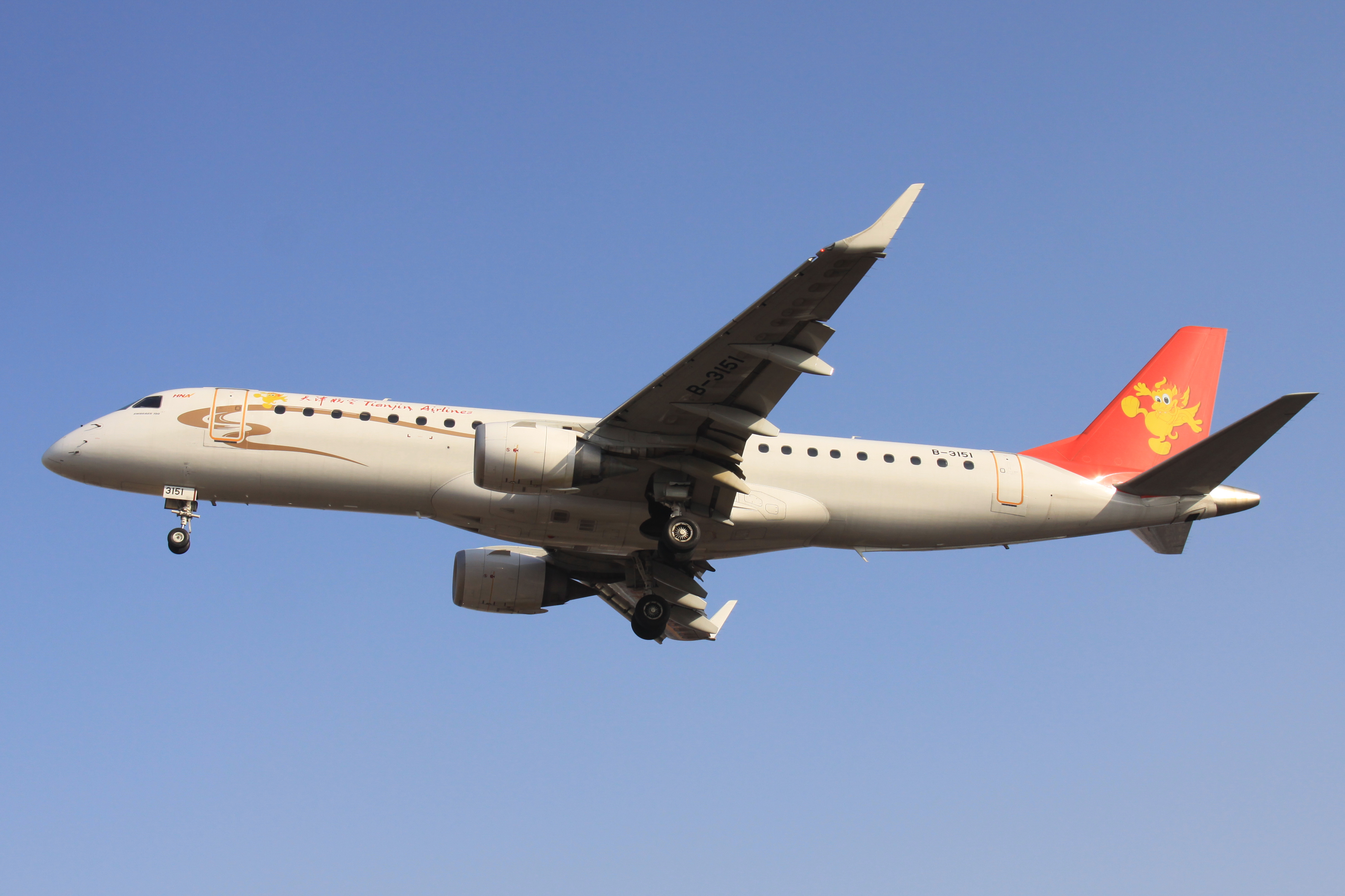 Final Approach to Dalian Airport Runway 28, Embraer ERJ-190LR, c/n:19000268 Tianjin Airlines(天津航空)